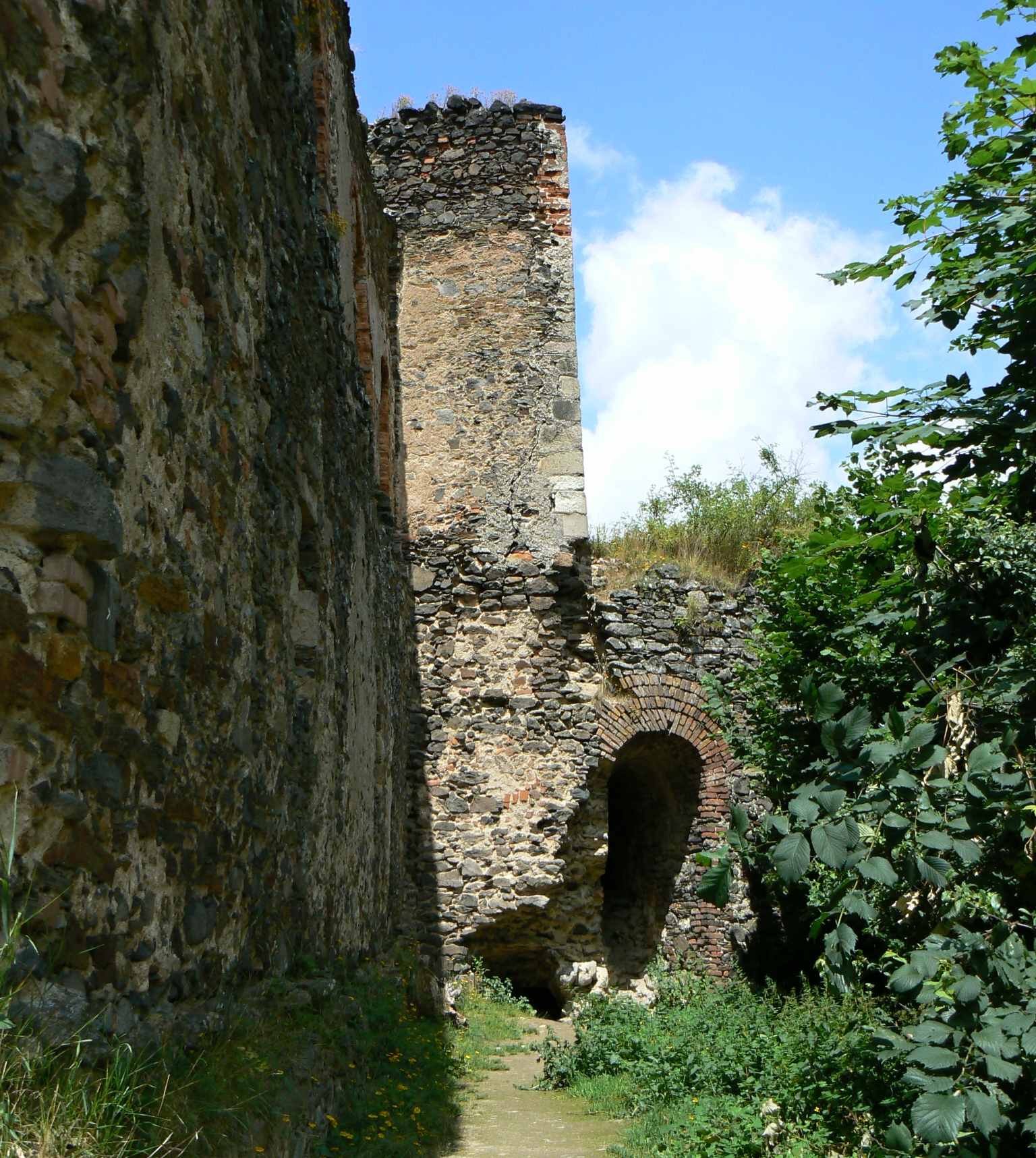 Hill with ruins of the castle and church spans to the natural monument Krasíkov, near Kokašice in Tachov District